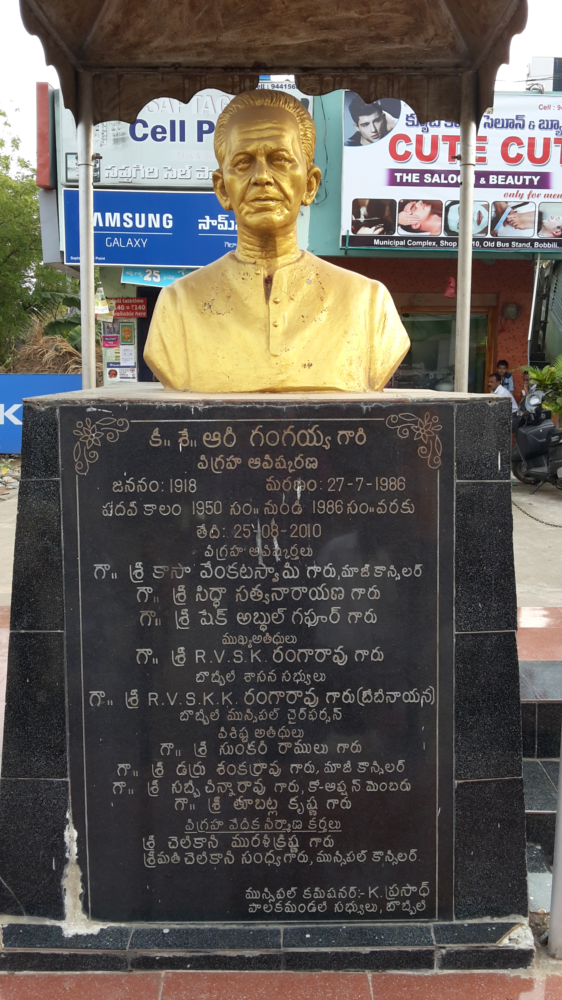 Sri Aari Gangaiah. Municipal chairman of Bobbili